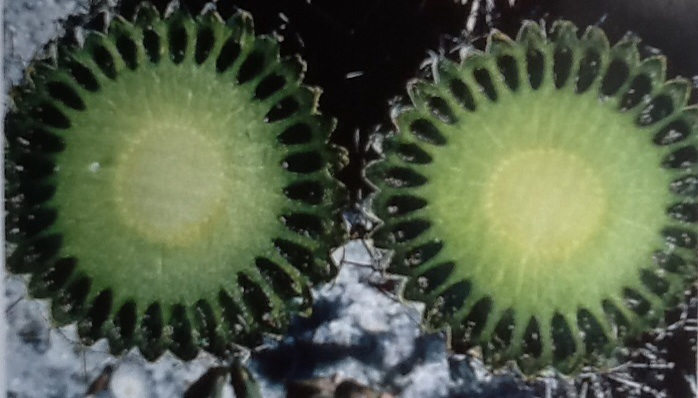 Stem cuts showing the mucilageous channels behind epidermis, type locality, Minas Gerais, Brasil